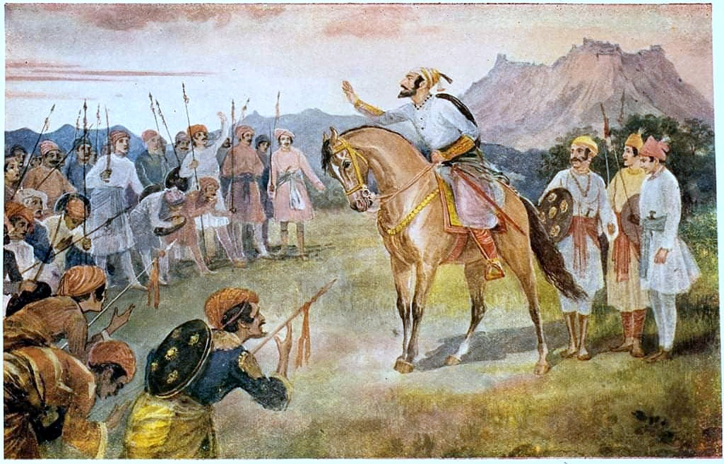 The ongoing exhibiton at the Museum 'M.V. Dhurandhar: The Artist as Chronicler' includes a series on Chhatrapati Shivaji Maharaj's life. These are illustrations from books commissioned by Balasaheb Pantapratinidi, Raja of Aundh. These works resulted from the numerous trips Dhurandhar made with Purshottam Mawji, who wrote a history of Shivaji Maharaj’s military and its role during warfare. Dhurandhar has skillfully captured the valour, aura and a humanitarian side of Chhatrapati Shivaji Maharaj. Swipe to see the following paintings: 1. The Coronation Durbar with over 100 characters depicted in attendance 2. Shivaji Maharaj in Aurangzeb's Durbar 3. Escape from Panhala 4. Tanaji's famous vow during Kondana campaign “Aadhi lagin kondhanyache mag mazya Raybache” 5. Shaistekhan Surprised 6. On the way to Purandar Join us at the Museum on 30th September 2018 at 5 pm for a traditional Powada performance which will bring these histories to life by folk theatre artists Ganesh Chandanshive, Shahir Yashwant & others! Museum entry ticket applicable